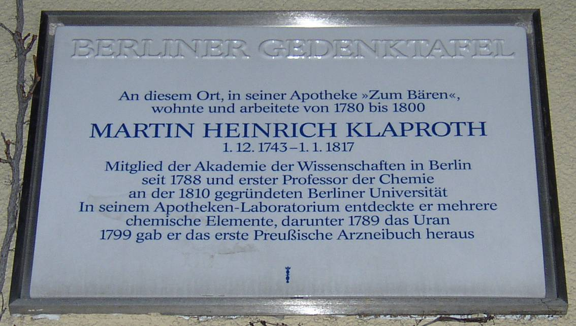 Berlin memorial plaque for Martin Heinrich Klaproth in Berlin-Mitte, Germany